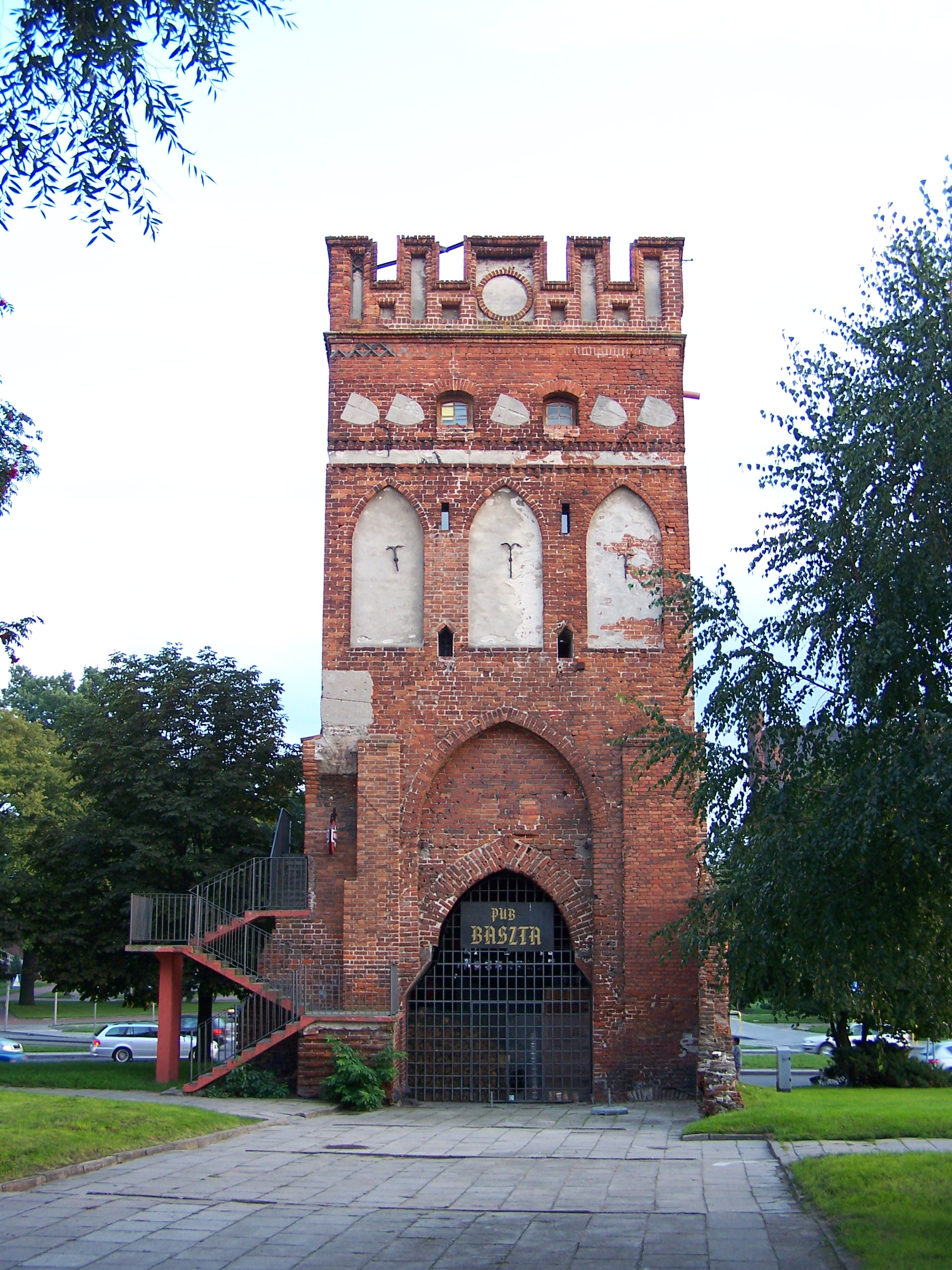 "Baszta Pub" in Malbork (Poland).